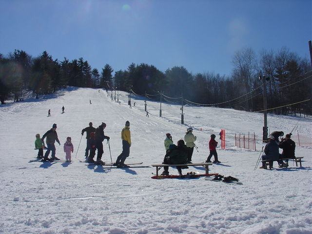 A photo of the ski slope.